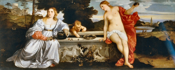 Sacred and Profane Love